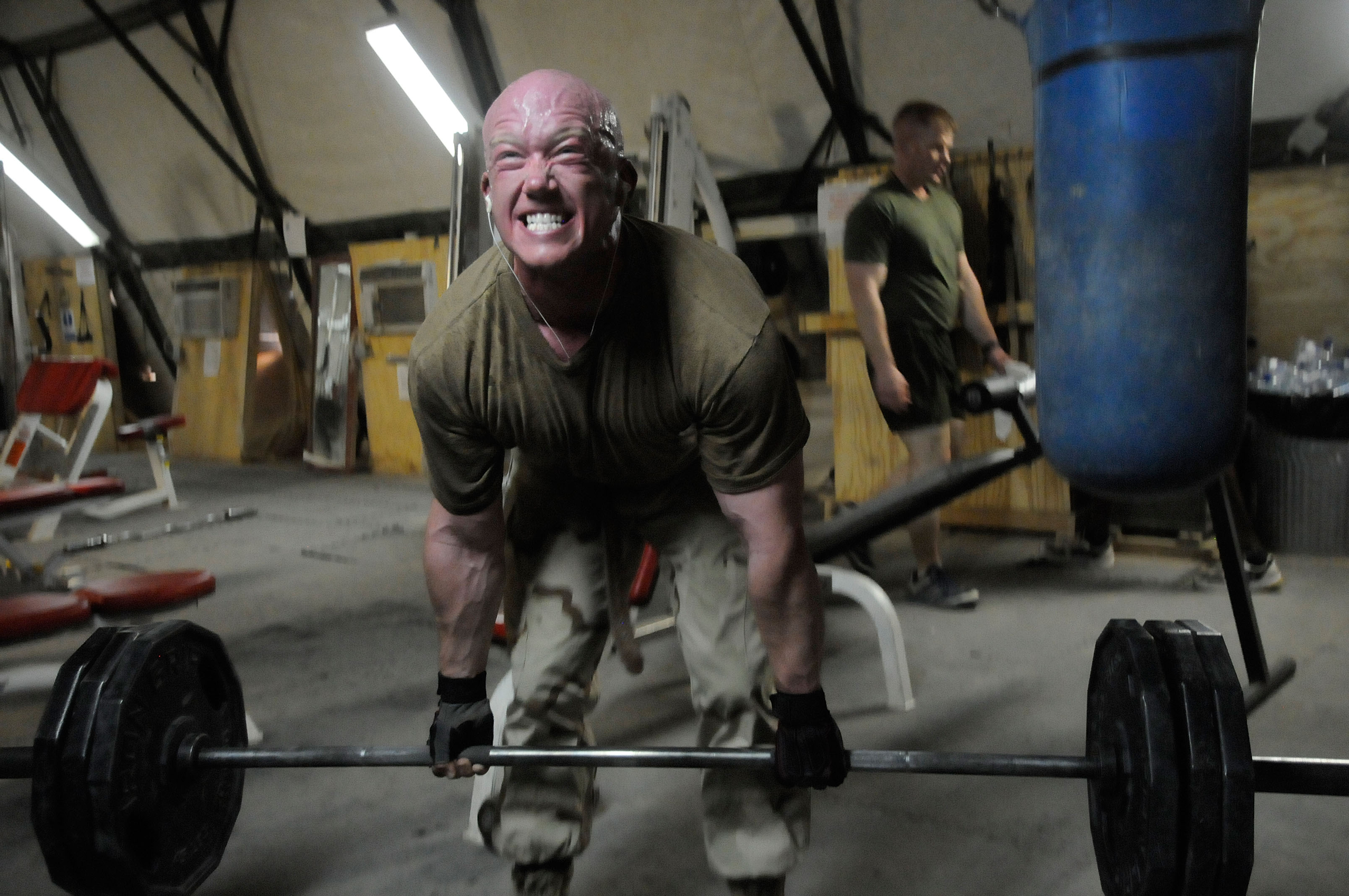 HELMAND PROVINCE, Afghanistan (May 4, 2010) Builder 2nd Class Eric Clark, from Belding, Mich., assigned to Naval Mobile Construction Battalion (NMCB) 5, performs a Romanian deadlift in the Camp Krutke Seabee Gym at Camp Leatherneck, Afghanistan. NMCB-5 is deployed to Afghanistan executing general engineering, infrastructure construction and project management supporting Operation Enduring Freedom. (U.S. Navy photo by Mass Communication Specialist 2nd Class Ace Rheaume/Released)